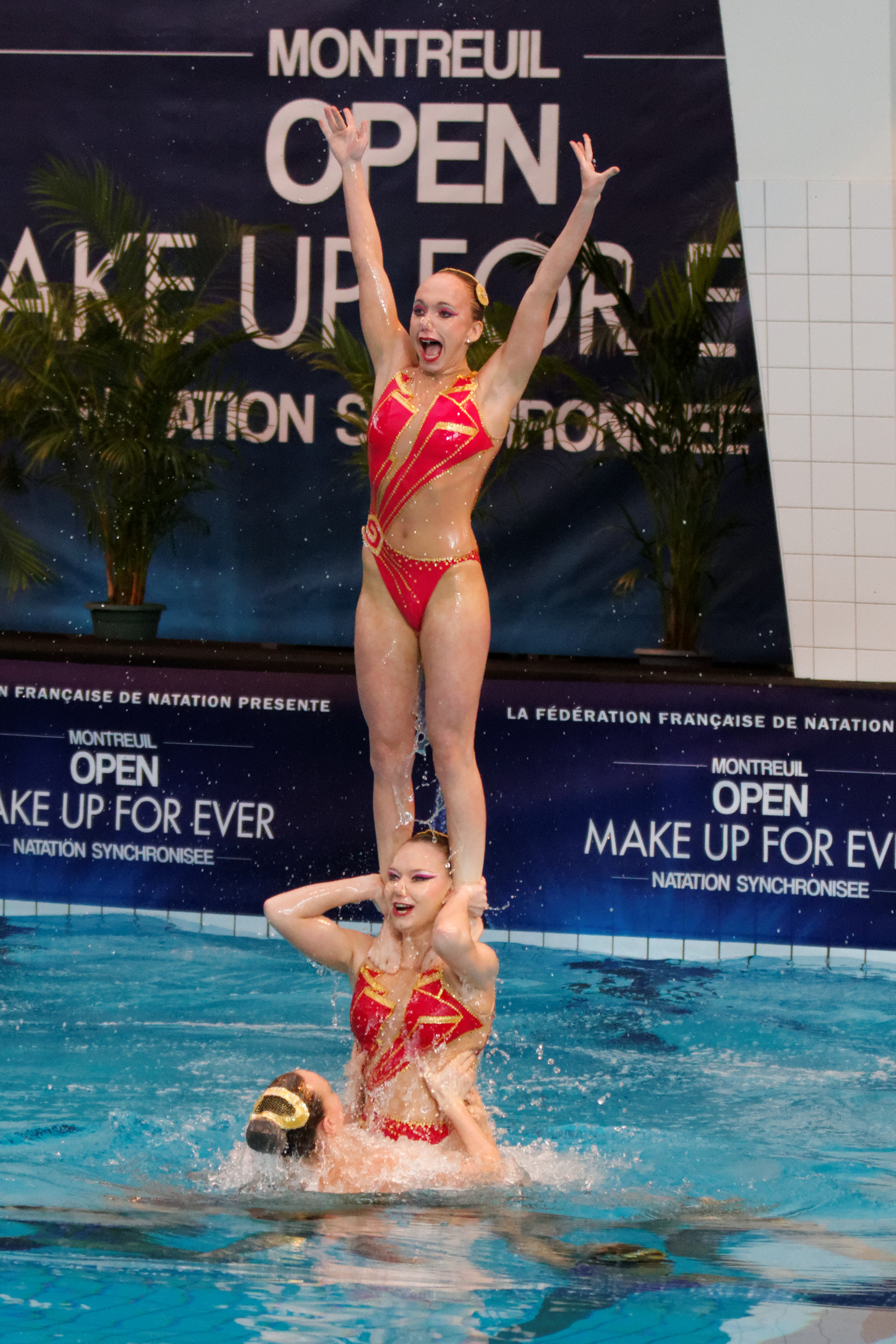 Russian team performs during the team's free routine at the French Open in Montreuil, March 16, 2013.